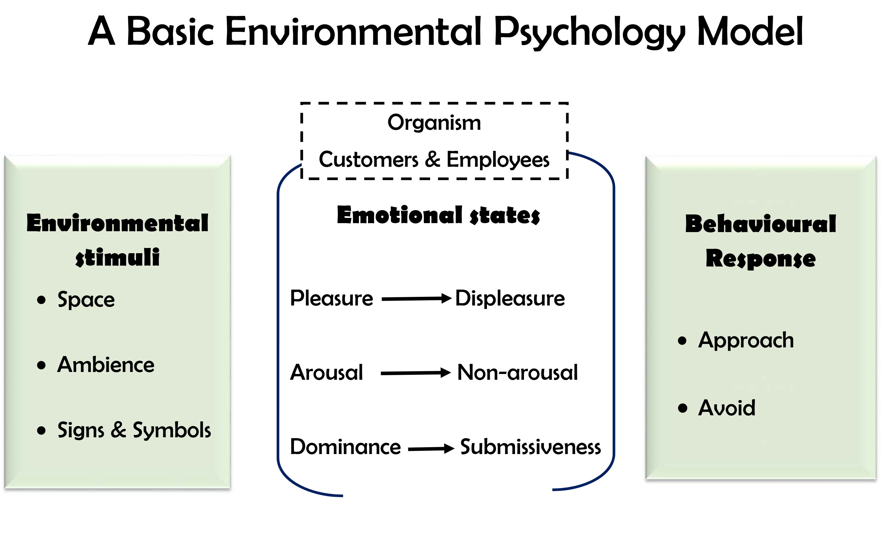 simple environmental psychology model for planning service environments (jpg file) to replace former pdf file